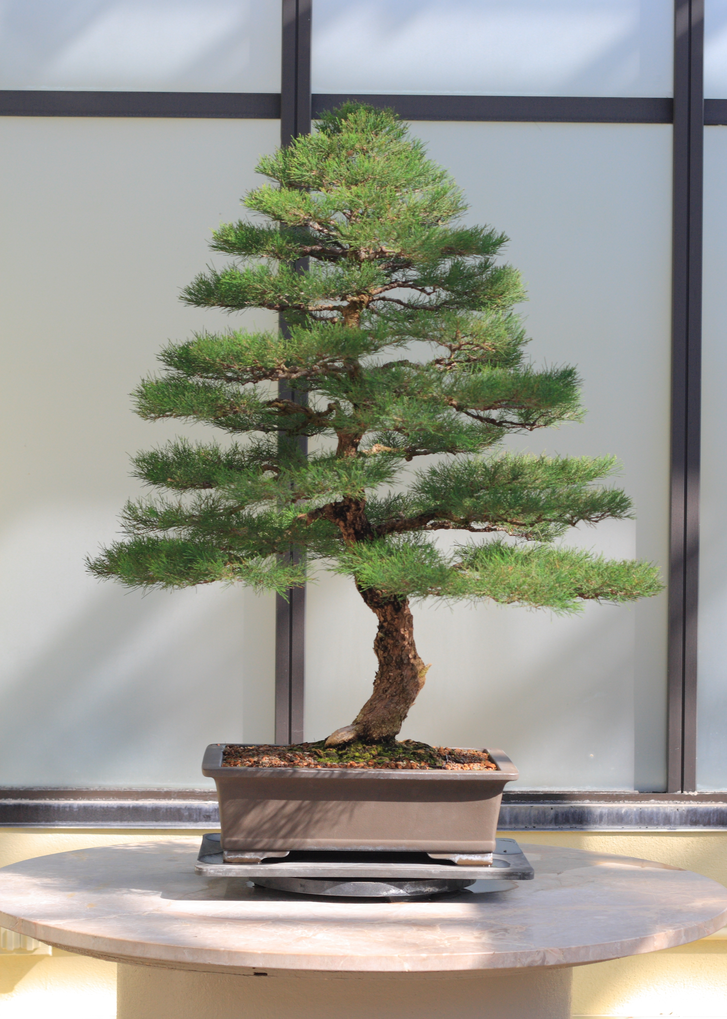 An Ironwood (Casuarina equisetifolia) bonsai, North American Collection 259, on display at the National Bonsai & Penjing Museum at the United States National Arboretum. According to the tree's display placard, it has been in training since 1978. It was donated by Edwin S. Nishida.